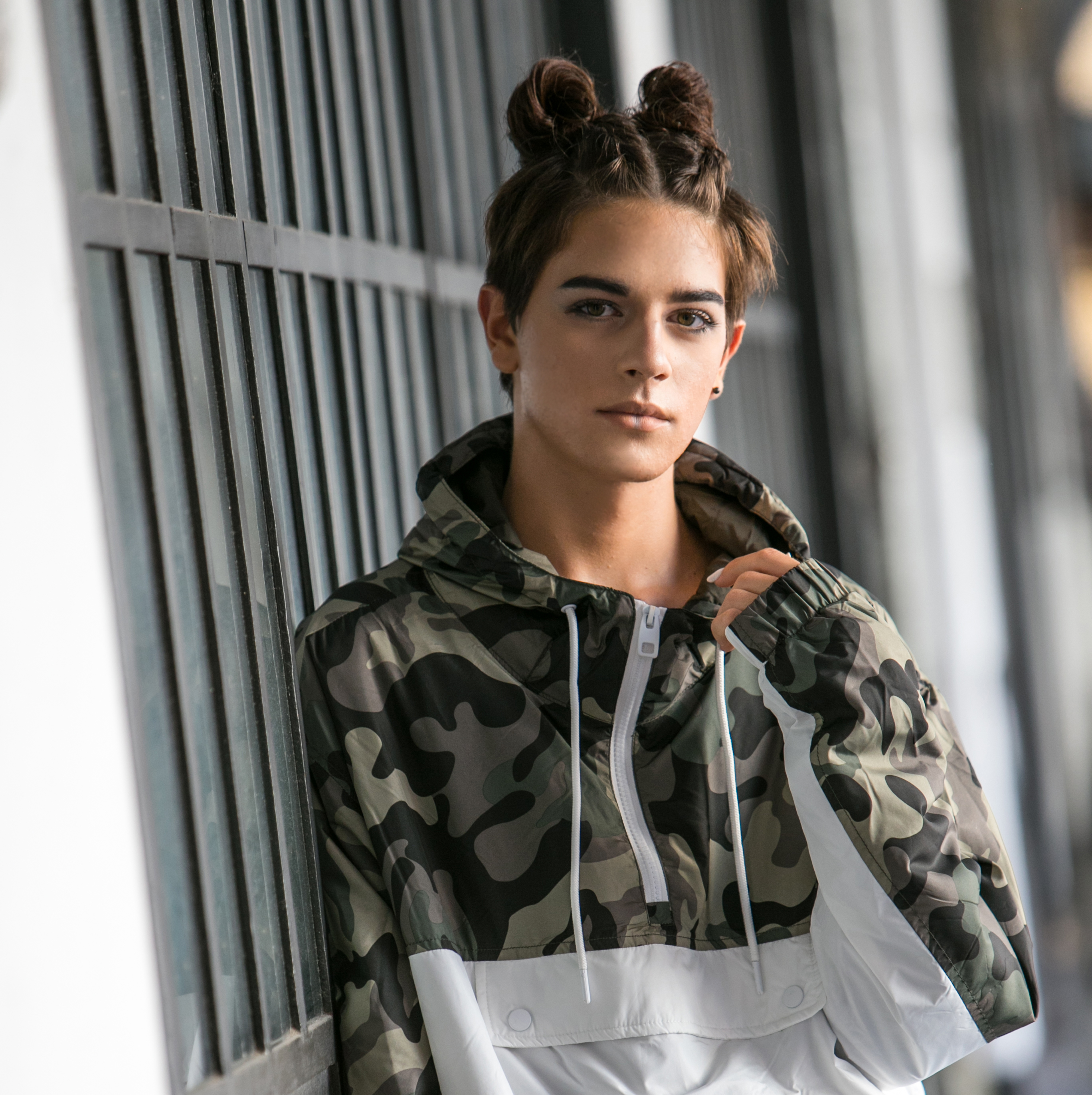 Gabriel Nobile